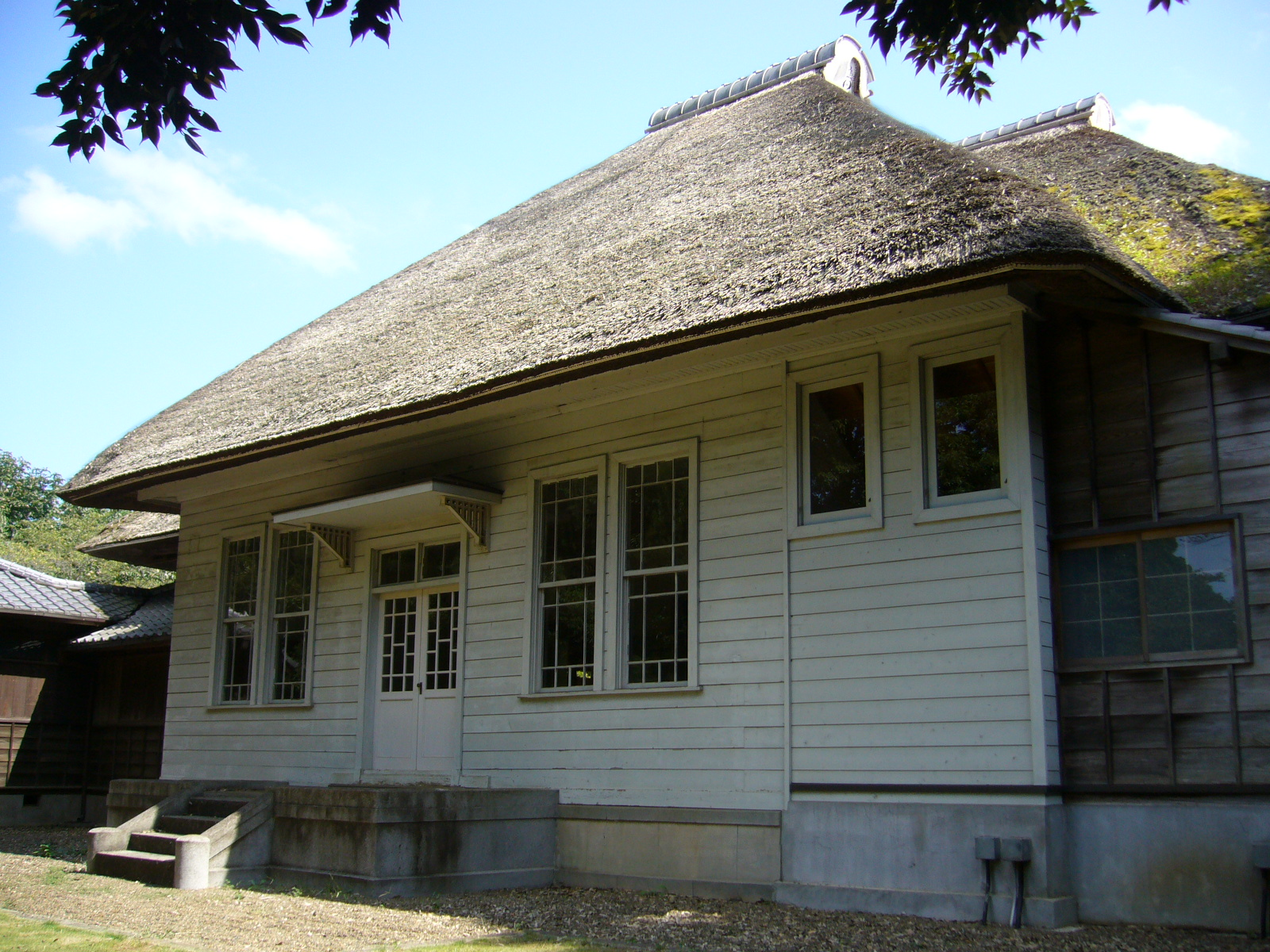 Old-sanrizuka-goryou-farm,old-house-for-honored-guests,narita-city,japan